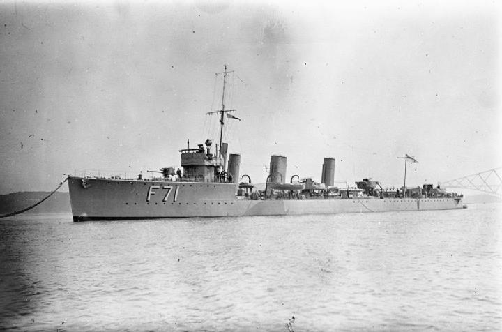 Photograph of British R class destroyer HMS Taurus.